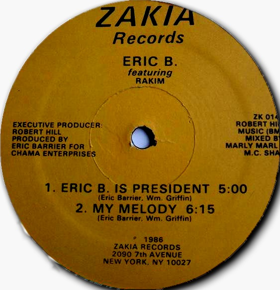 Side A of the Eric B. & Rakim 12-inch single "Eric B. is President / My Melody". This record was released in 1986 on Zakia Records.